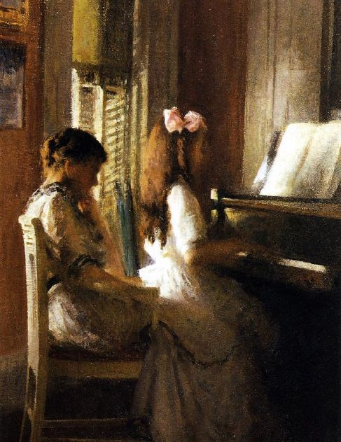 The Music Lesson